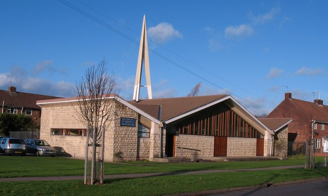 St Aidan's church, Ridgeway Nineteen seventies church on the western edge of York.